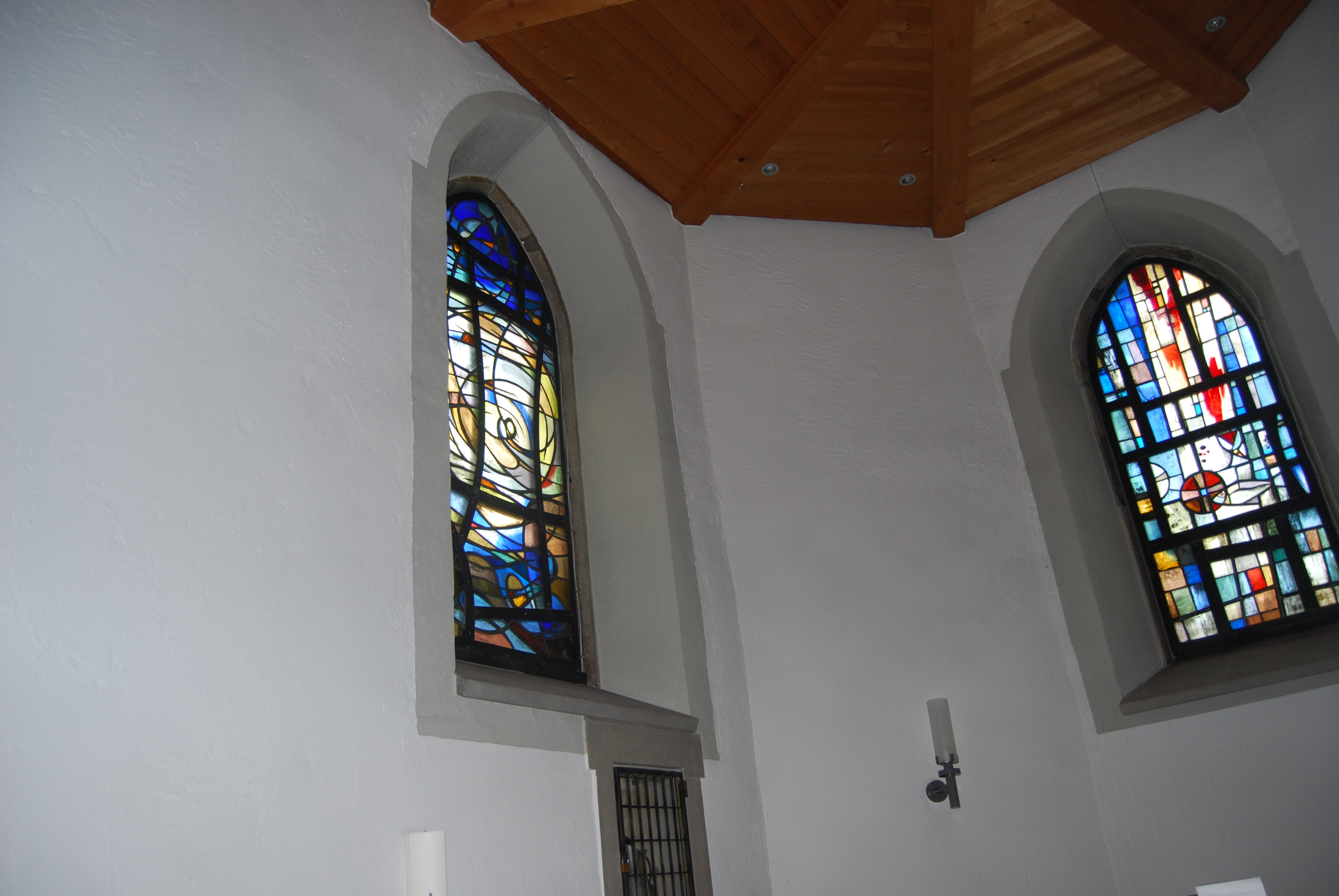 Glass paintings in the church of Dorf, canton of Zürich, SwitzerlandEsperanto: Vitropentraĵoj en la preĝejo de Dorf, Kantono Zuriko, Svislando